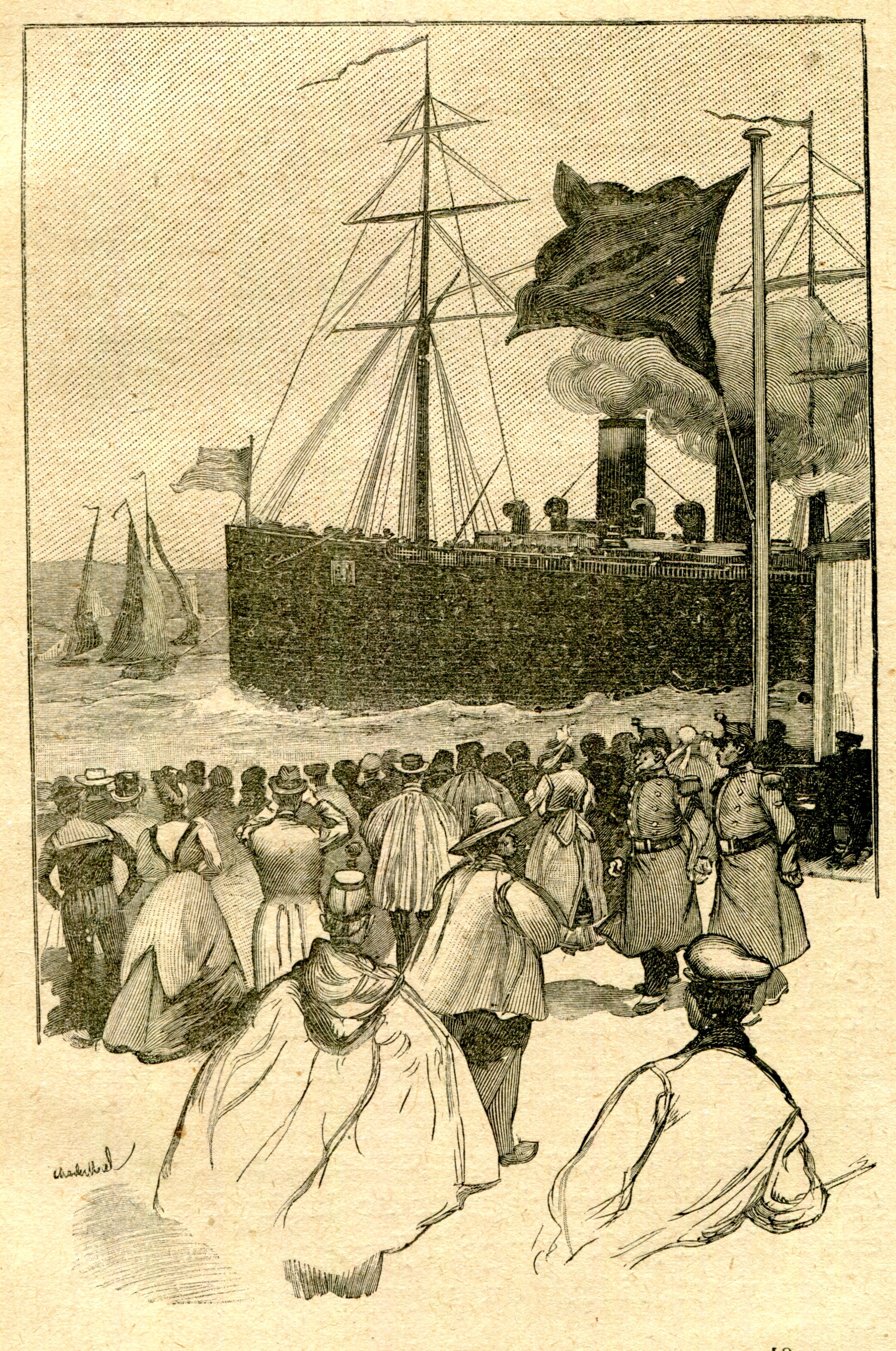 Illustration for G. de Maupassant's short story "My Uncle Jules" (from the collection "Miss Harriet" published by P. Ollendorff, Paris)